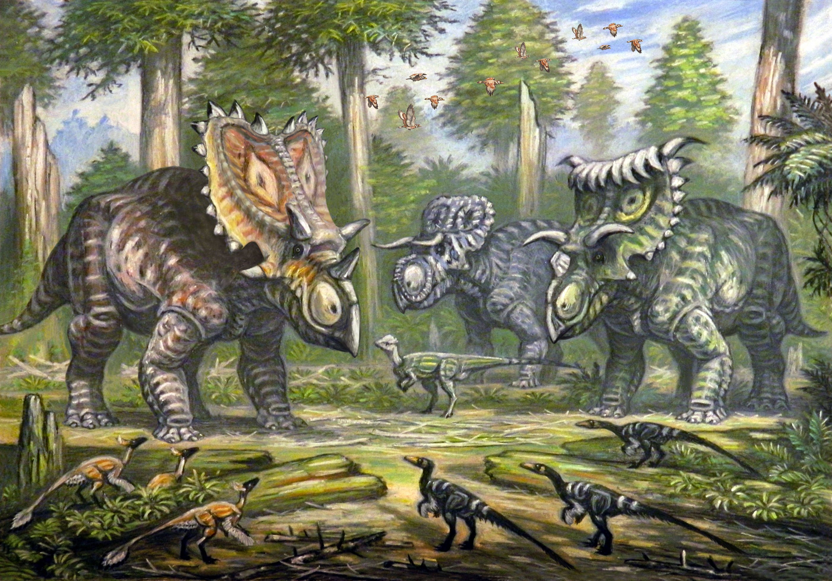 Utahceratops, Kosmoceratops and Nasutoceratops watch groups of Talos and dromaeosaurids. A pachycephalosaur stands in the middle. Utahceratops and Kosmoceratops match proportions shown in their original description[1], as does Nasutoceratops[2] and Talos[3].